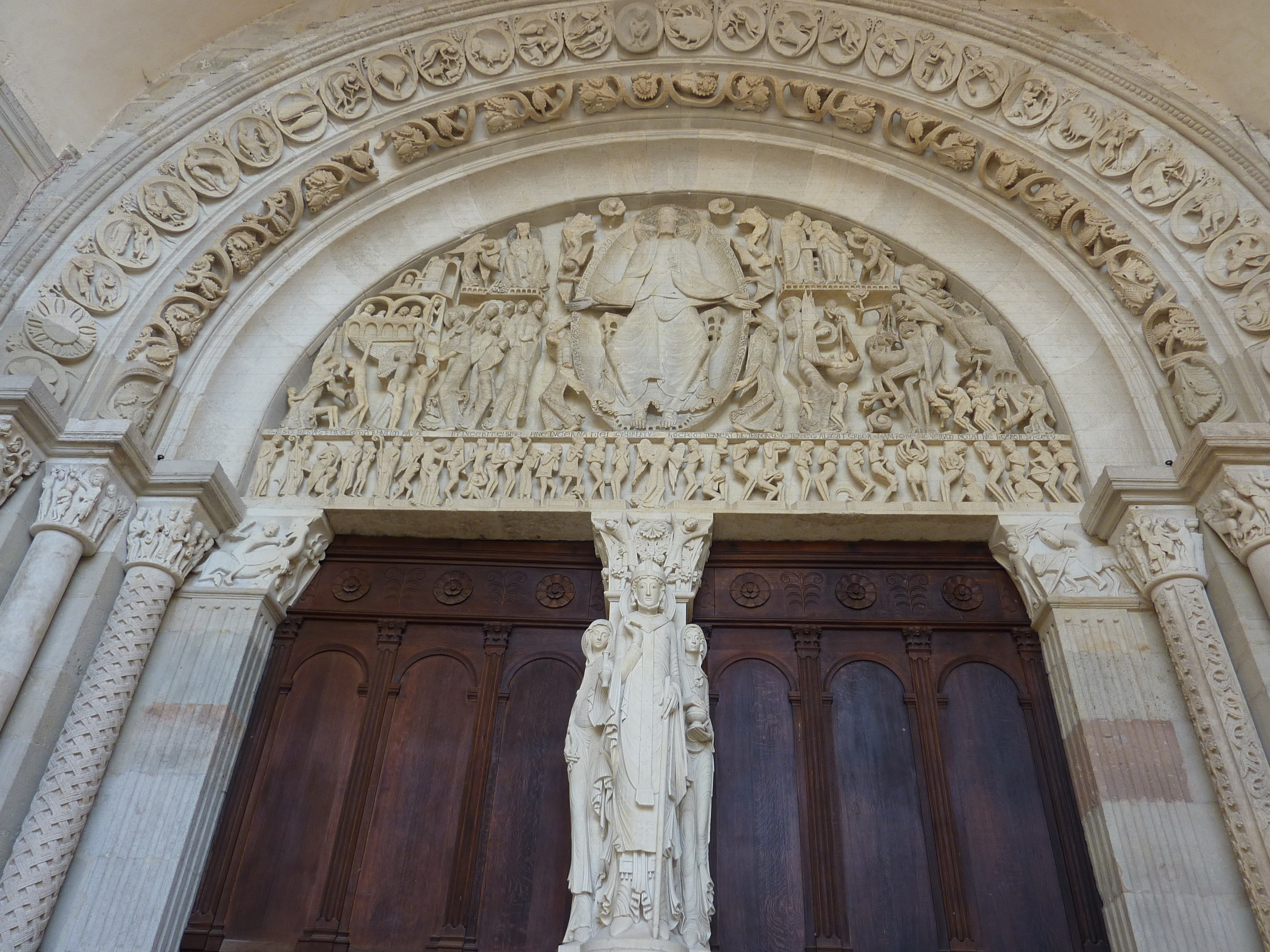 Autun : Cathedral of Saint Lazarus, tympanum (detail)